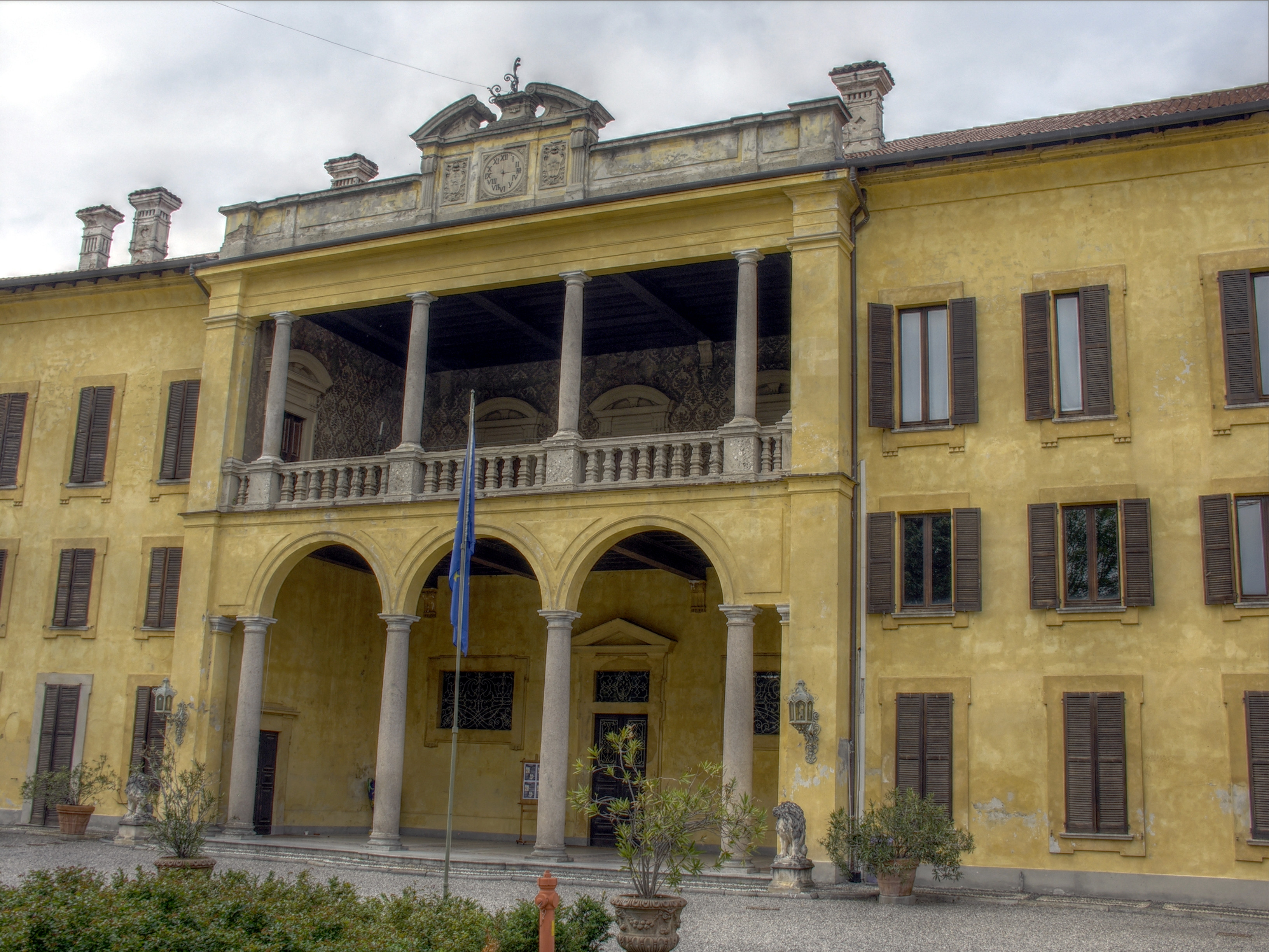 Castano Primo, MI, Italy - Rusconi palace detail